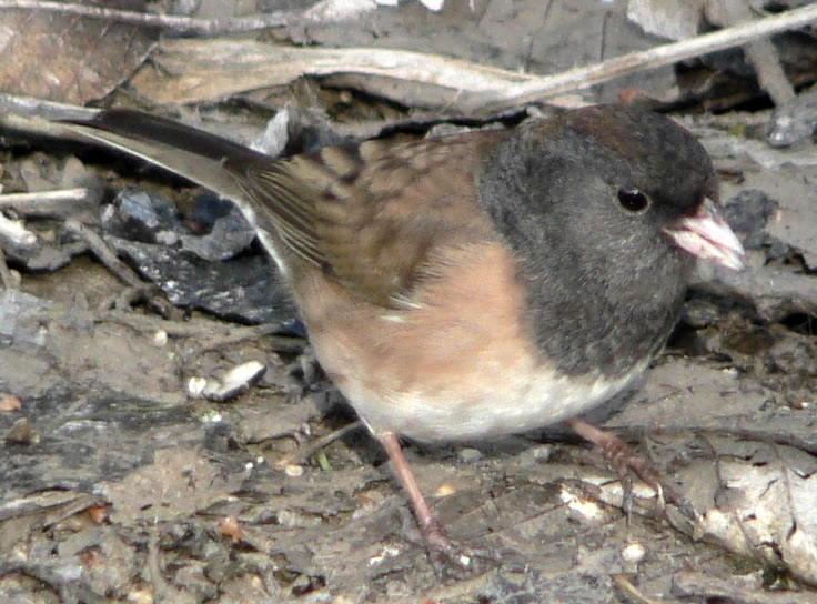 Oregon Junco